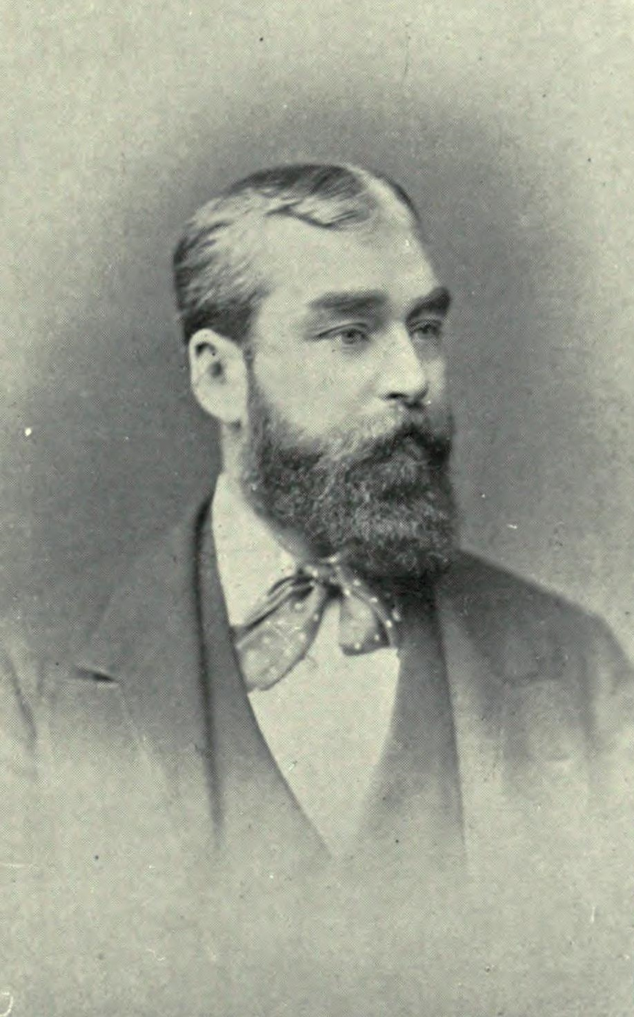 Photograph of Francis "F.C." Burnand.